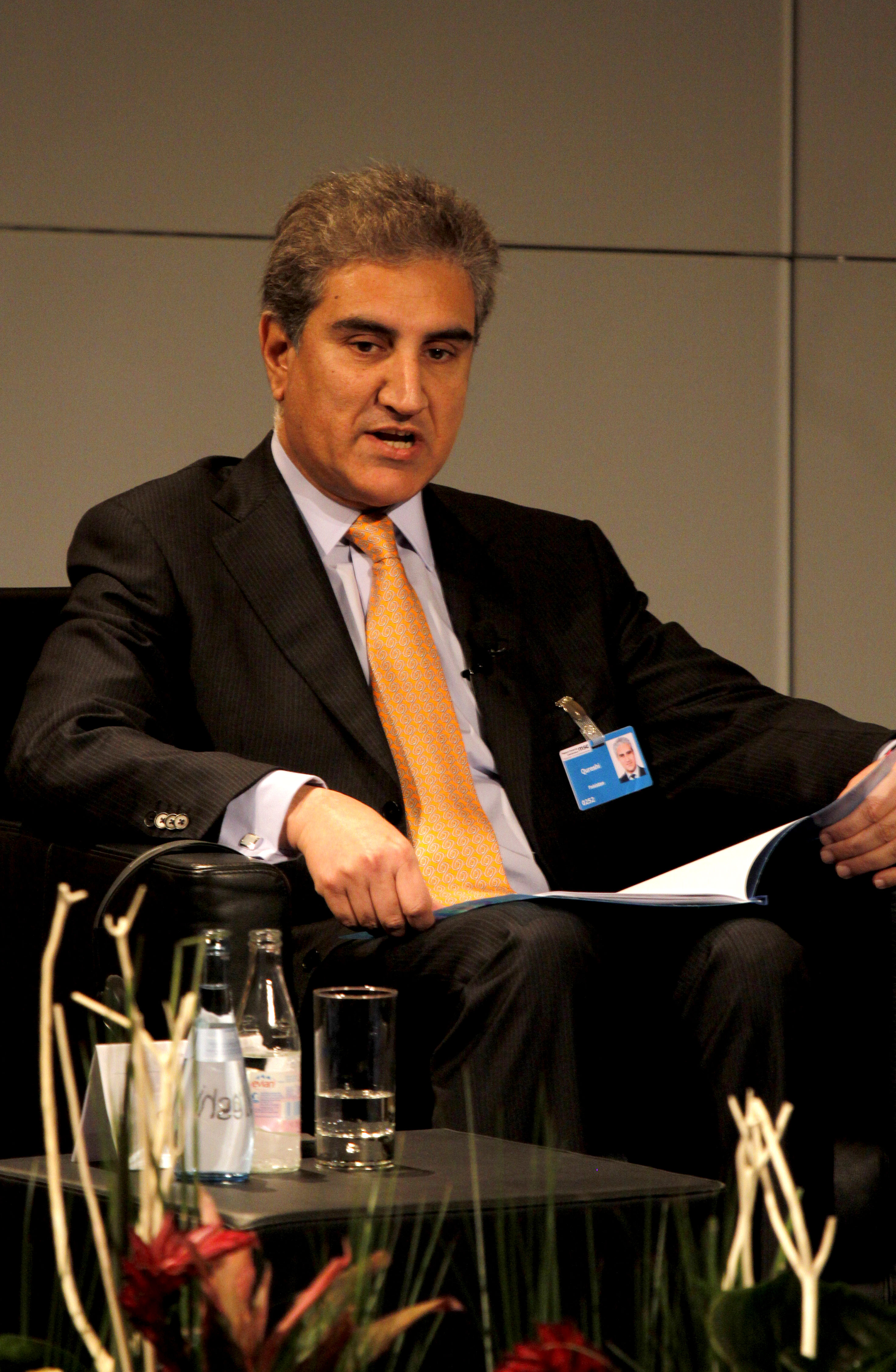 45th Munich Security Conference 2009: Mahmood Shah Makhdoom Quereshi, Minister of Foreign Affairs, Islamic Republic of Pakistan.